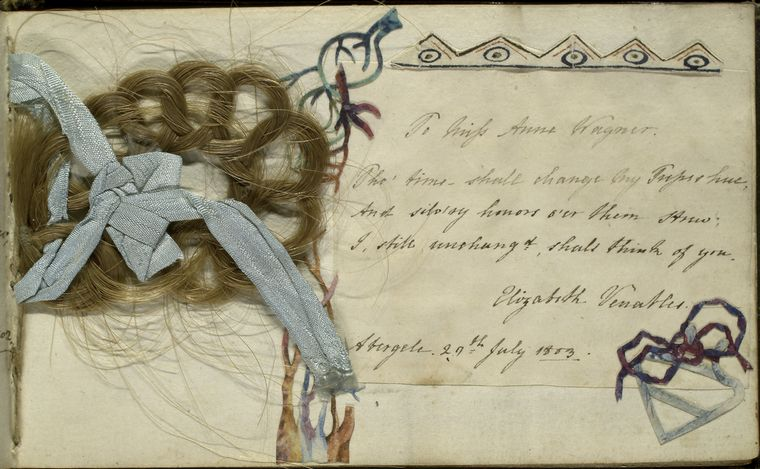 Scrapbook page belonging to Anne Wagner, a note from her niece Elizabeth Venables, in Abergale, July 29, 1803